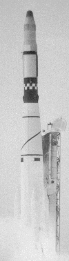 Launch of the rocket Thor Agena D with satellite Corona 87